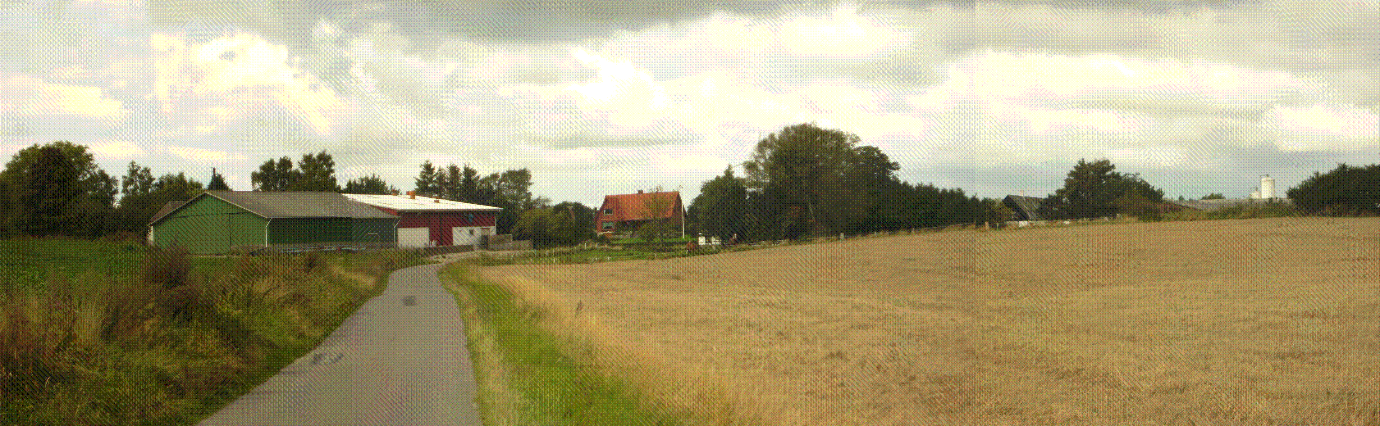 Lågerup, Denmark